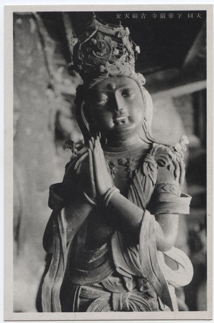 Statue of Jixiang Tiannu, Huayan Monastery, Datong, Shanxi Province, China